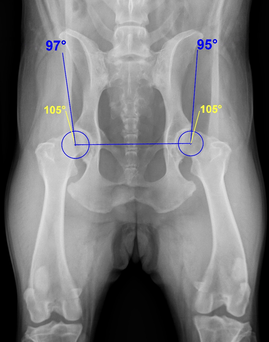 hip dysplasia in a rottweiler dog